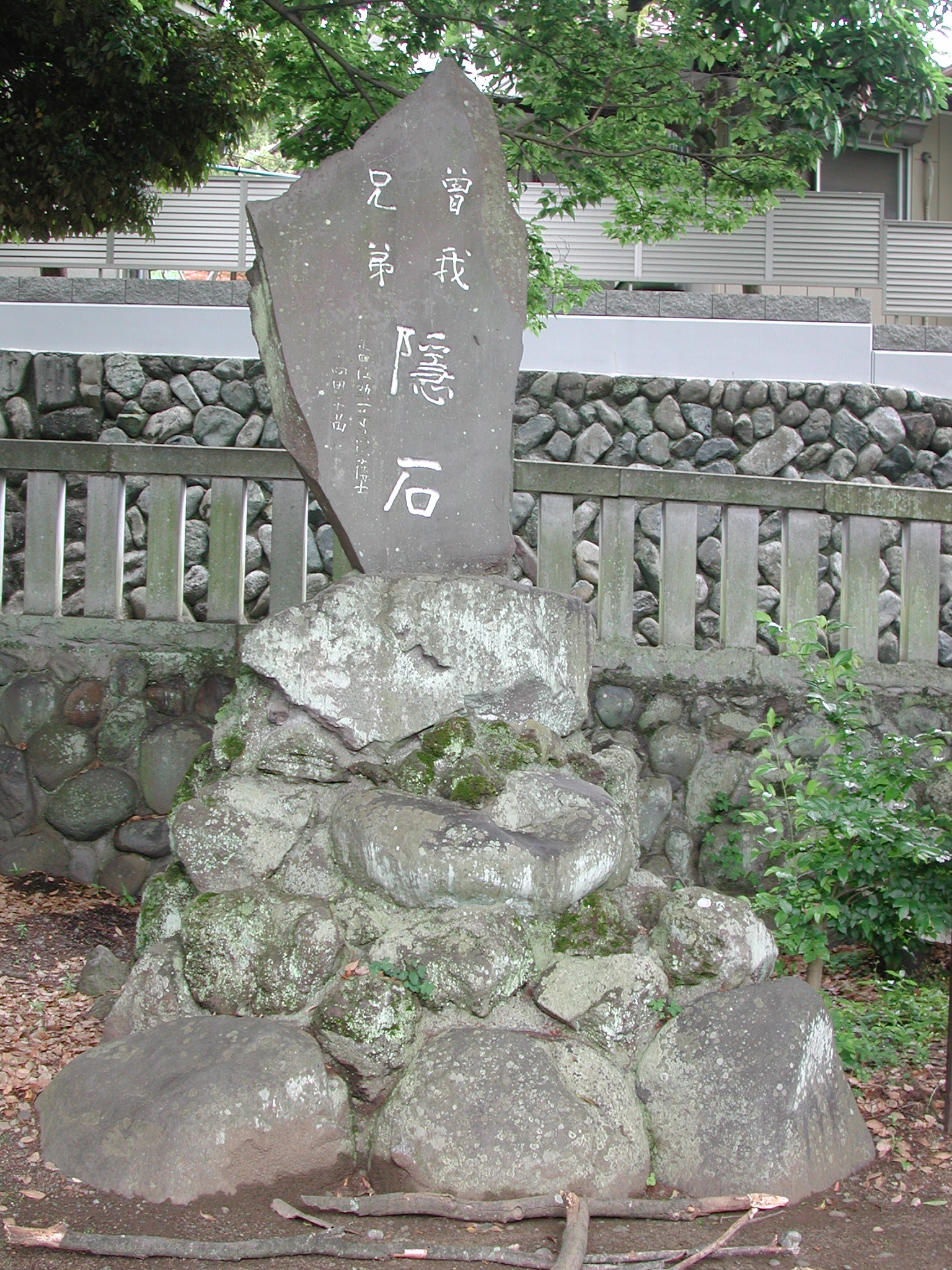 "Soga no kakureishi" in Sugawara Jinja (Kouzu, Odawara-shi, Kanagawa)